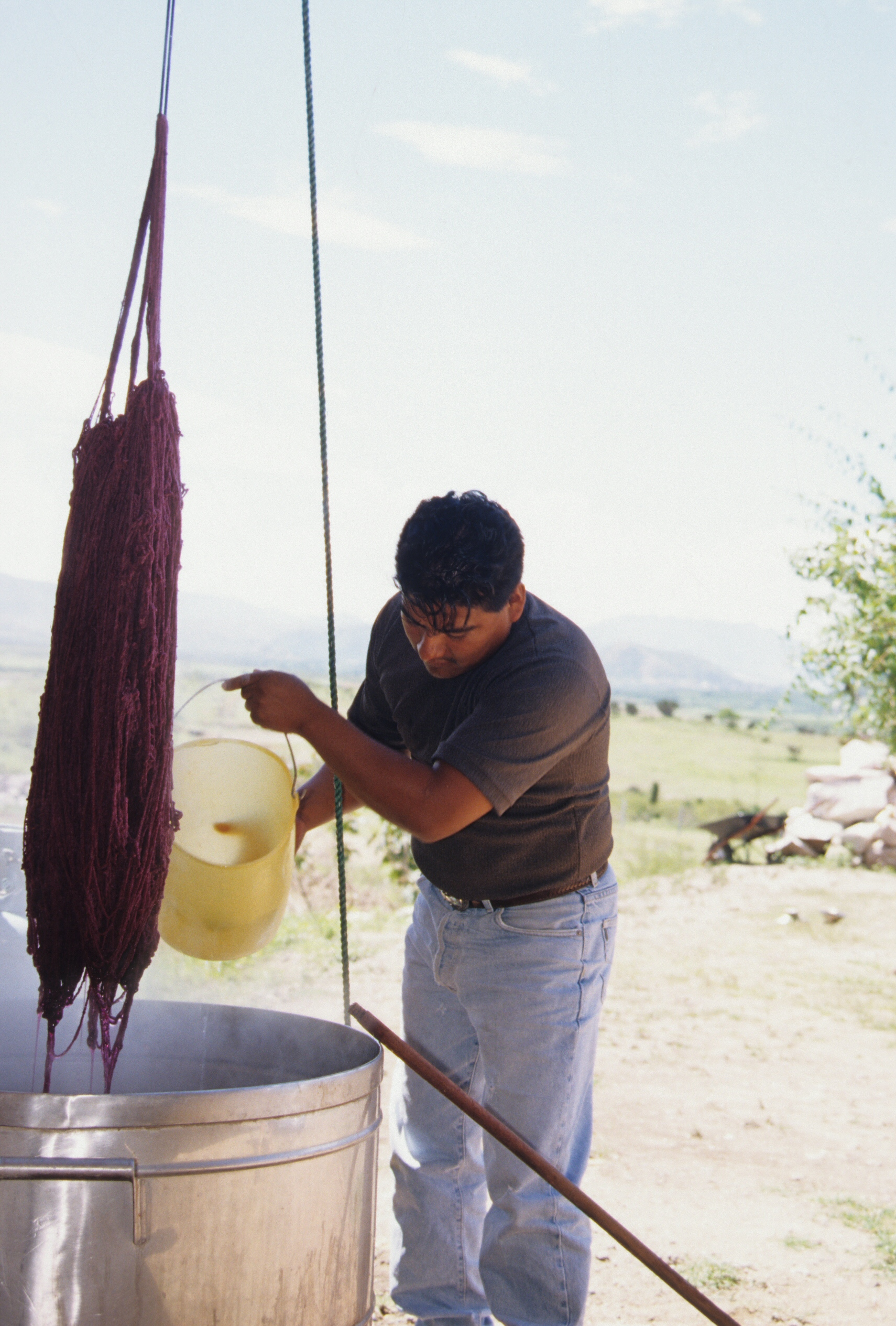 Fidel Cruz Lazo dying yarn at his workshop in Oaxaca